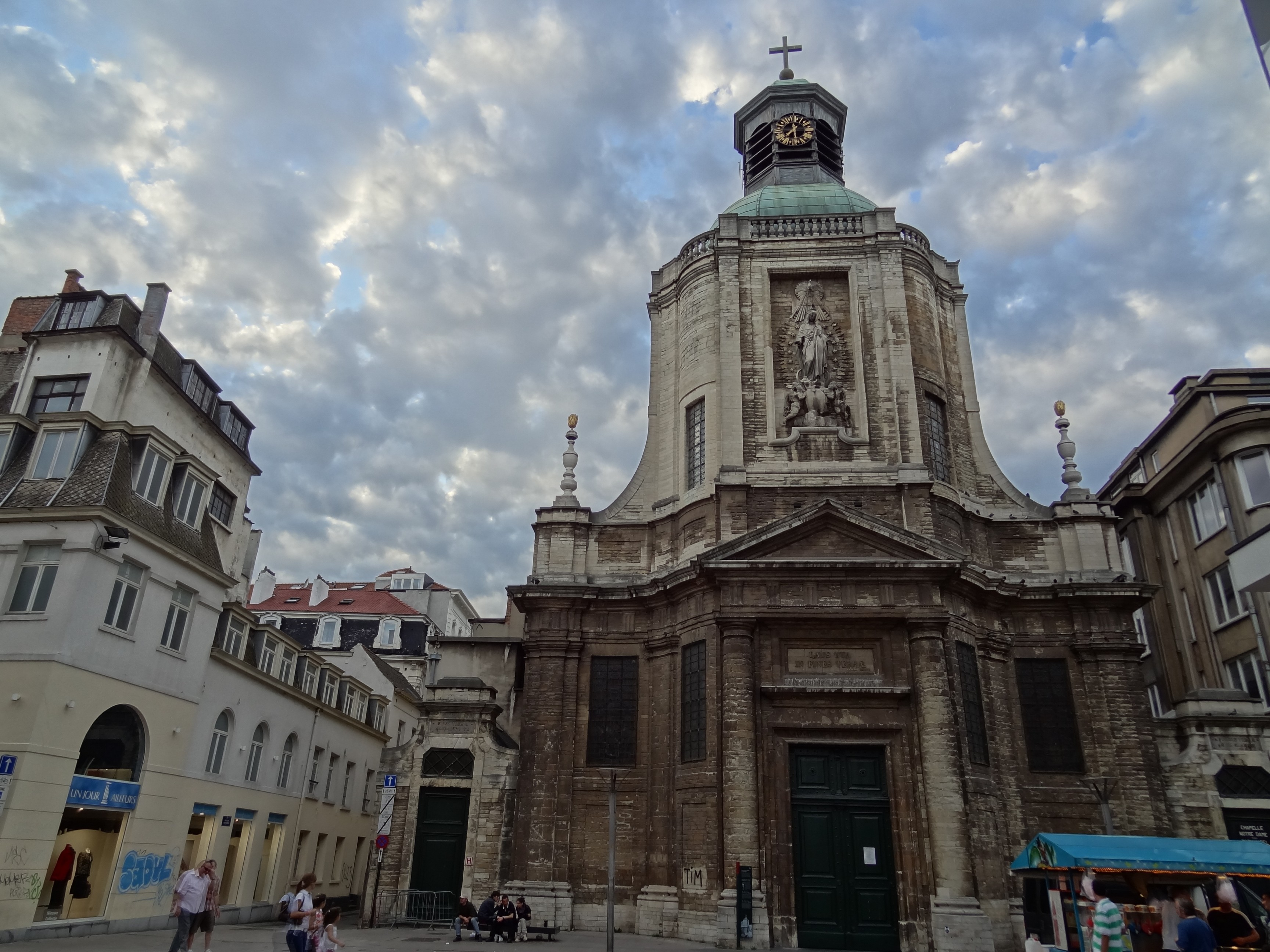 church Onze-Lieve-Vrouw van Finisterrae, Nieuwstraat 76, Brussels